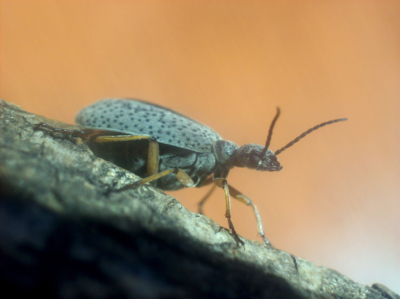 Epicauta atomaria